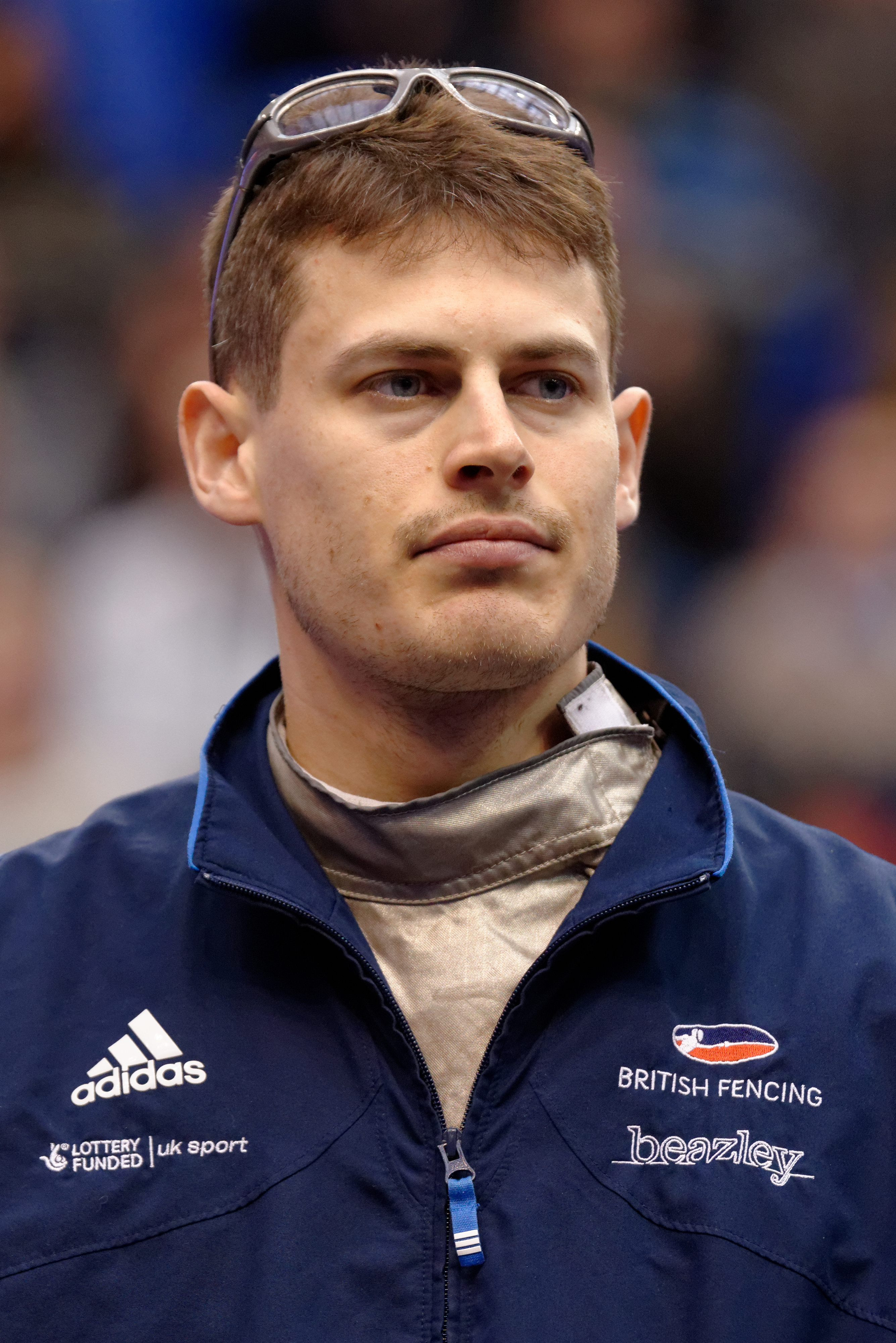 Great Britain's Richard Kruse at the individual event of the 2015 Challenge International de Paris, a men's foil World Cup competition.